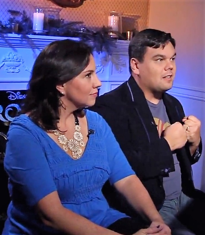 Oscar Winners Kristen & Bobby Lopez teach us how they created Disney's Frozen "Let it Go" for by Dulce Osuna